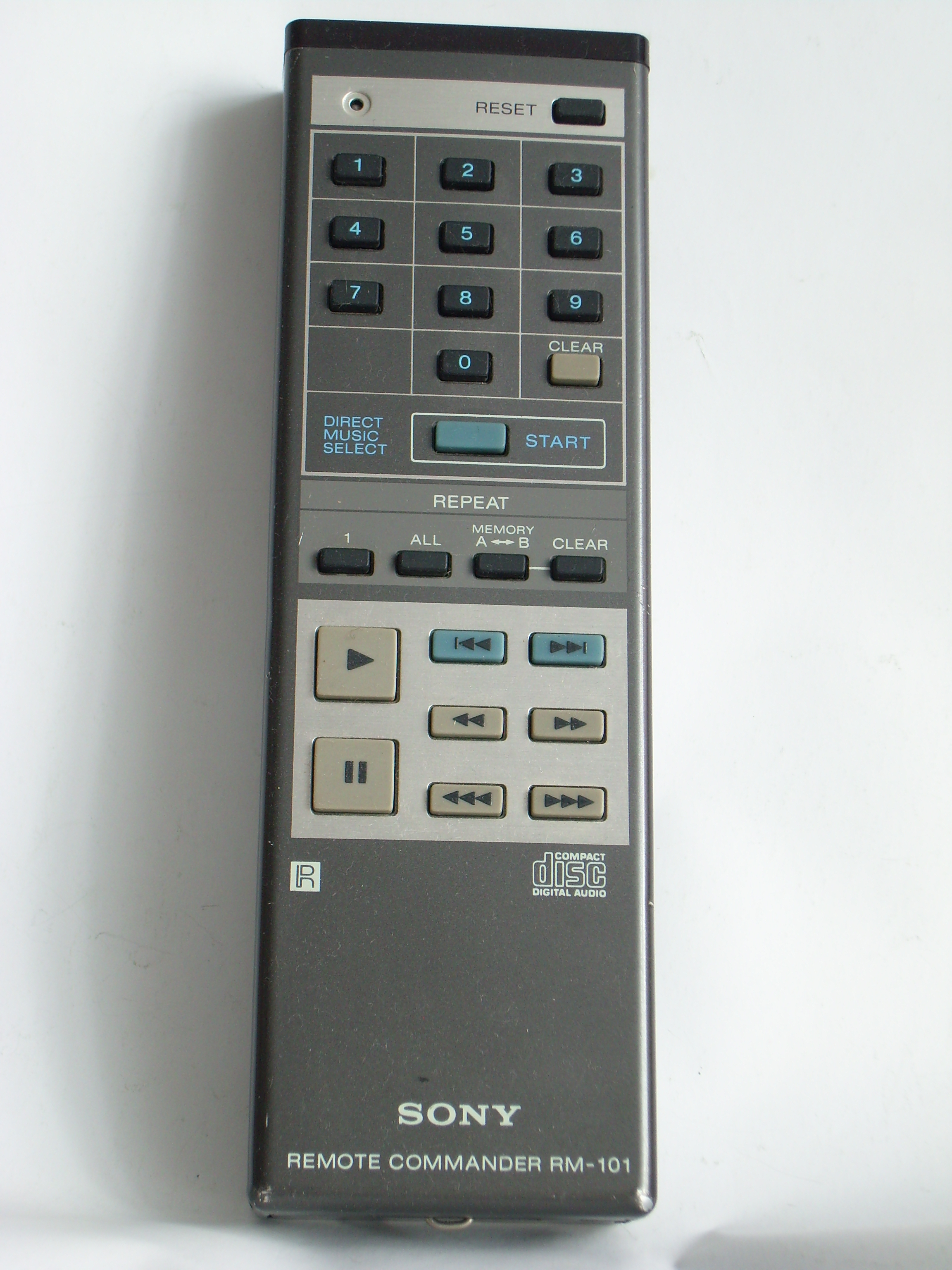 Remote controller RM-101 for first commercial CD player, CDP-101.